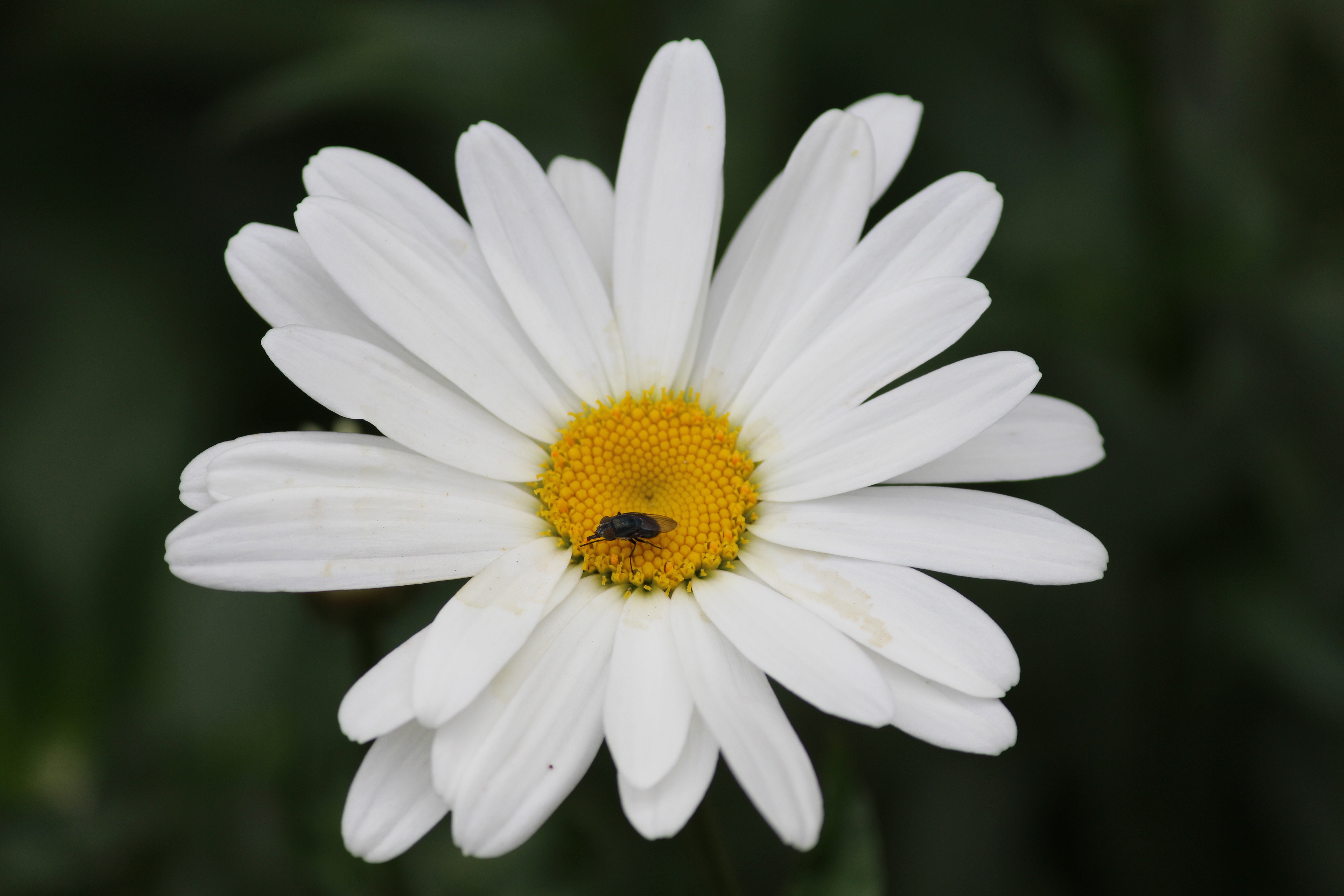 Leucanthemum vulgare, the ox-eye daisy, or oxeye daisy is a widespread flowering plant native to Europe and the temperate regions of Asia. Photo taken from Kanthalloor village in Idukki district in the Indian state of Kerala